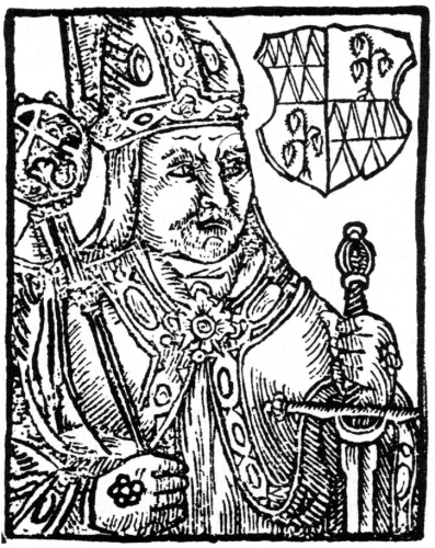 Bishop Bruno of Schauenburk